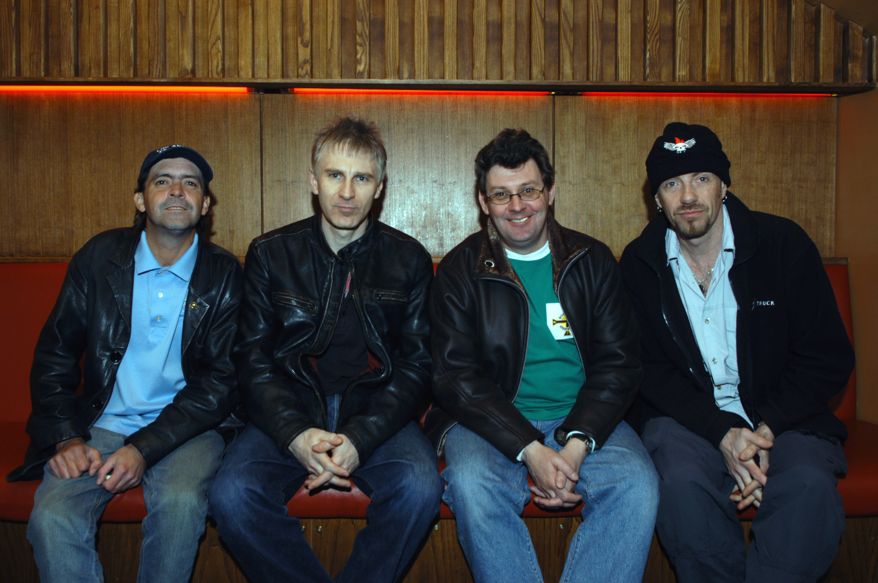 Photo of the musical group Stiff Little Fingers.